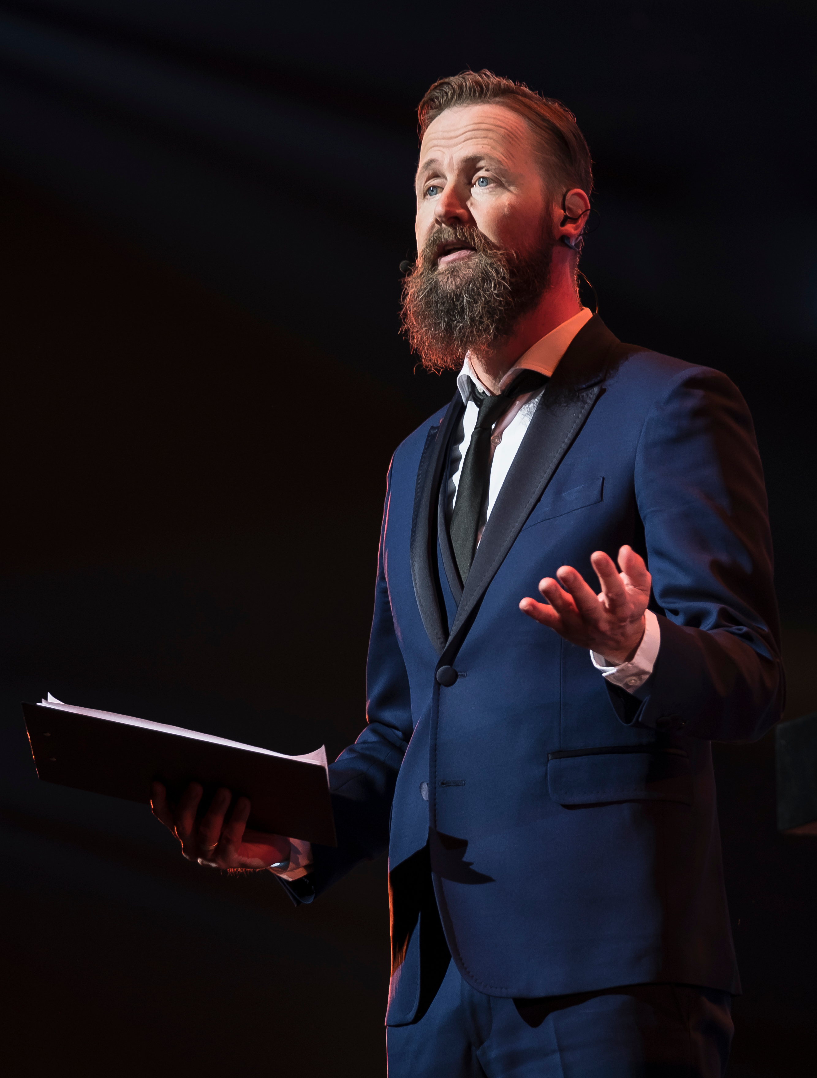 Forward Thinking Leadership - 28 September 2018